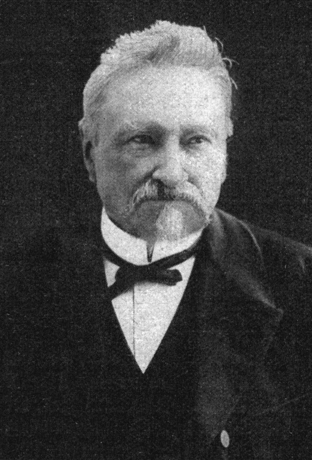 Gustave de Molinari